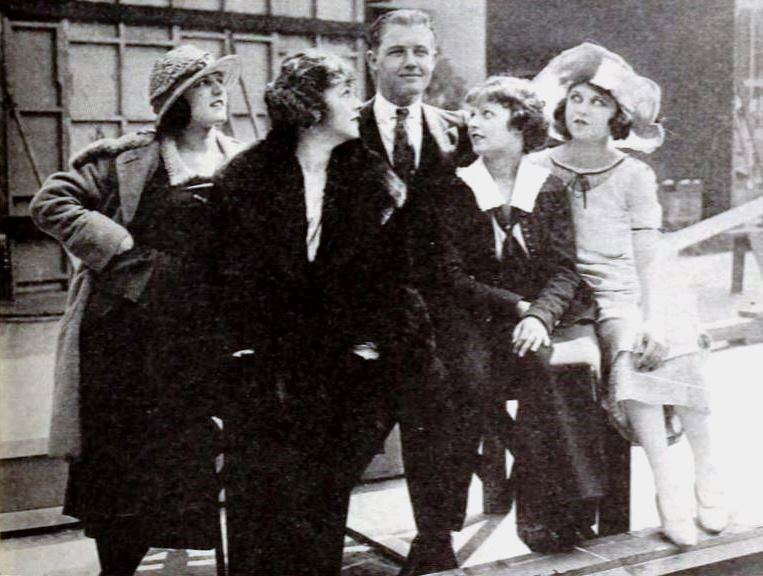 Actor Ralph Bushman, later known as Francis X. Bushman Jr., and Christie Follies players (not identified individually), on page 81 of the April 10, 1920 Exhibitors Herald.